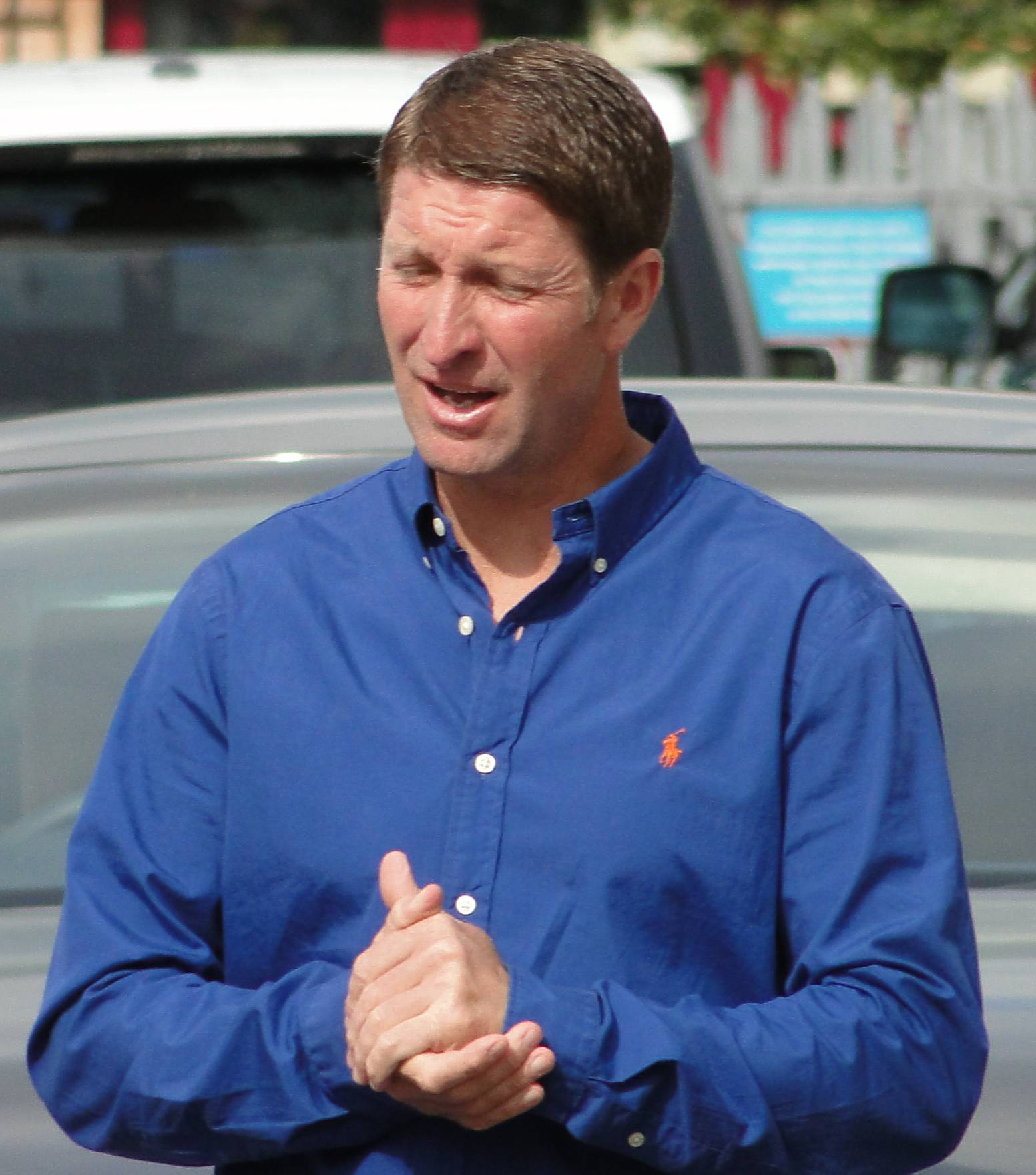 Former West Ham United footballer, John Moncur, outside the Boleyn Ground before West Ham's game against Peterborough United